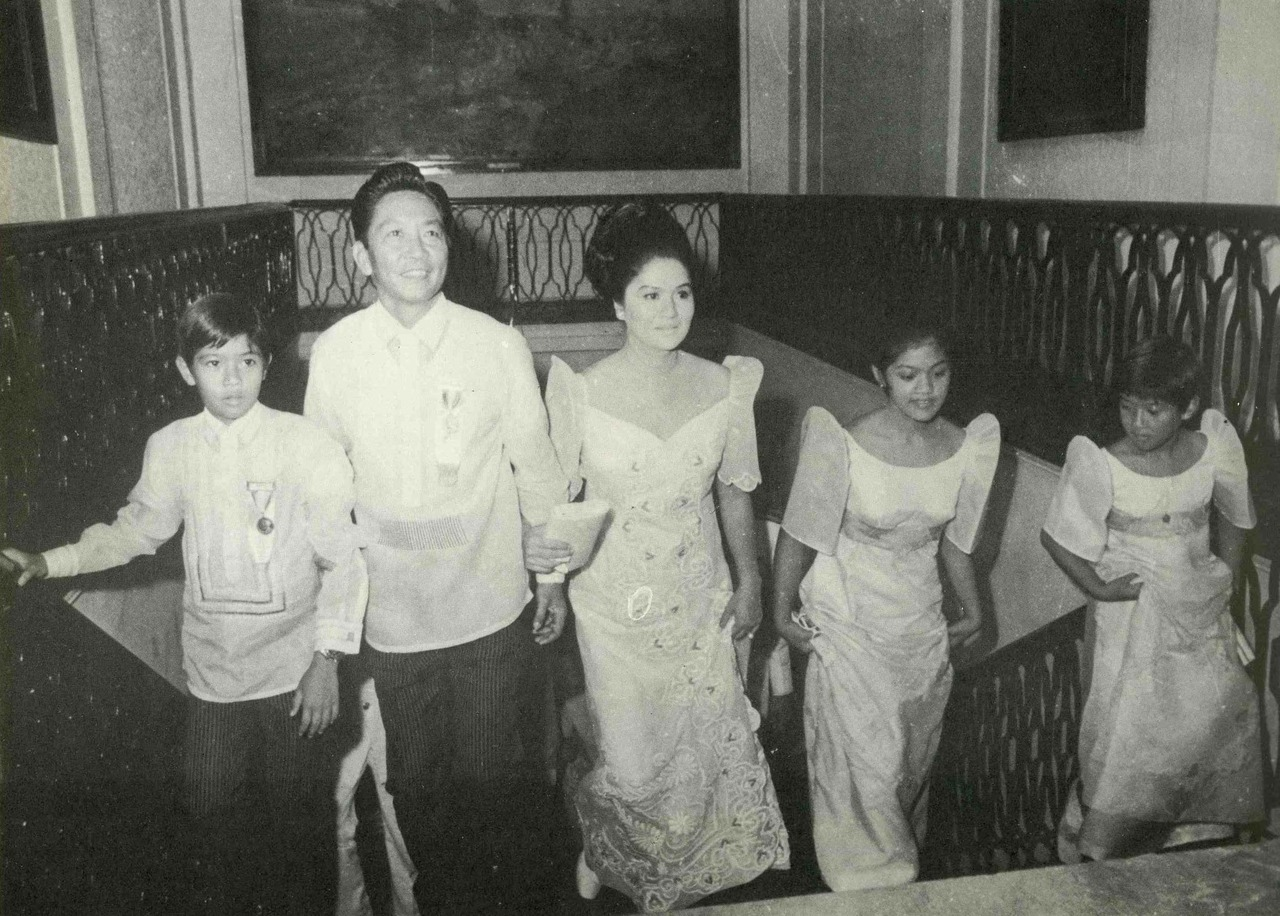 Philippine President Ferdinand E. Marcos and the First Family ascending the main Palace staircase on the day of his 1969 inaugural.